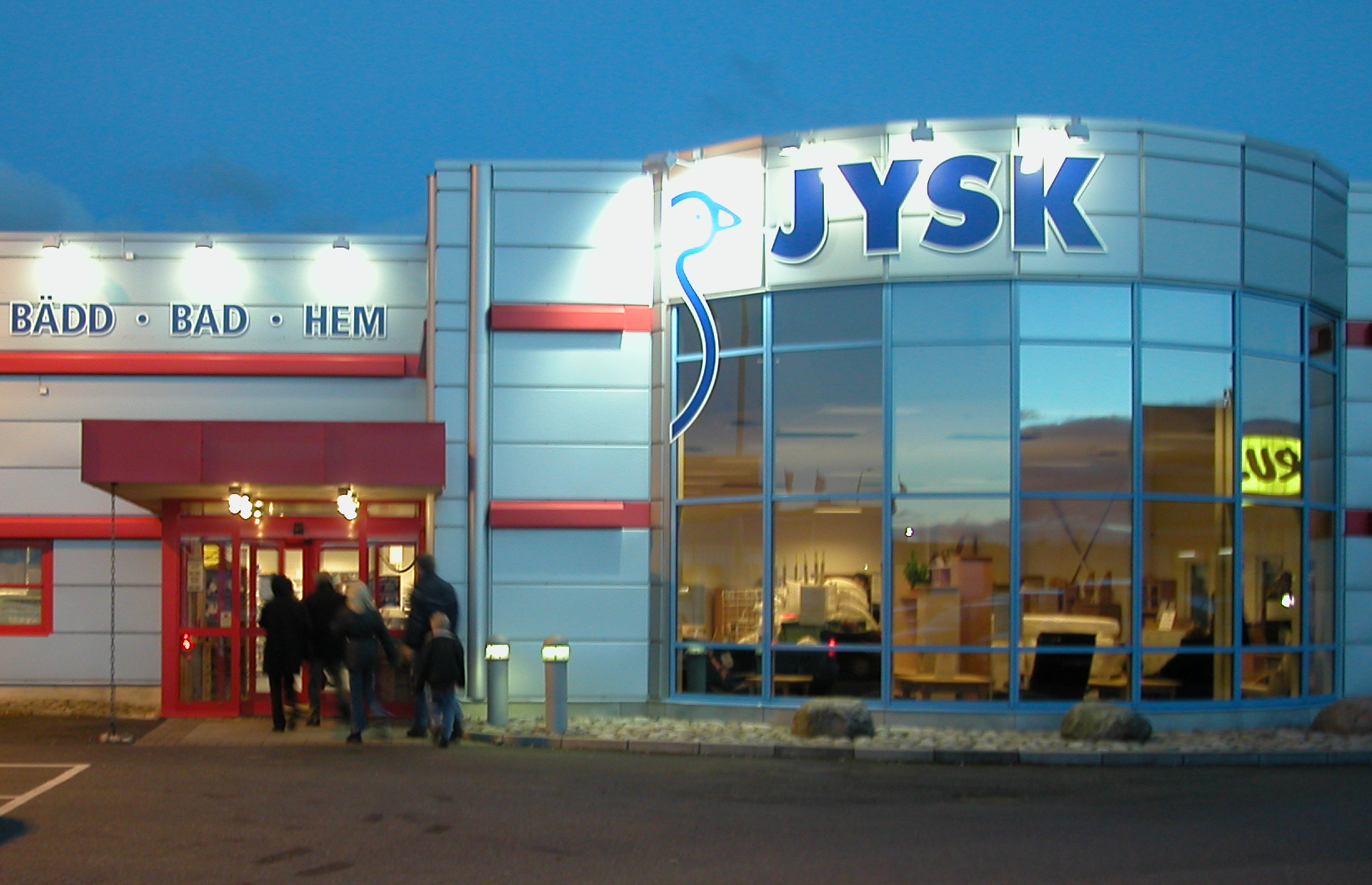 JYSK store in Sweden